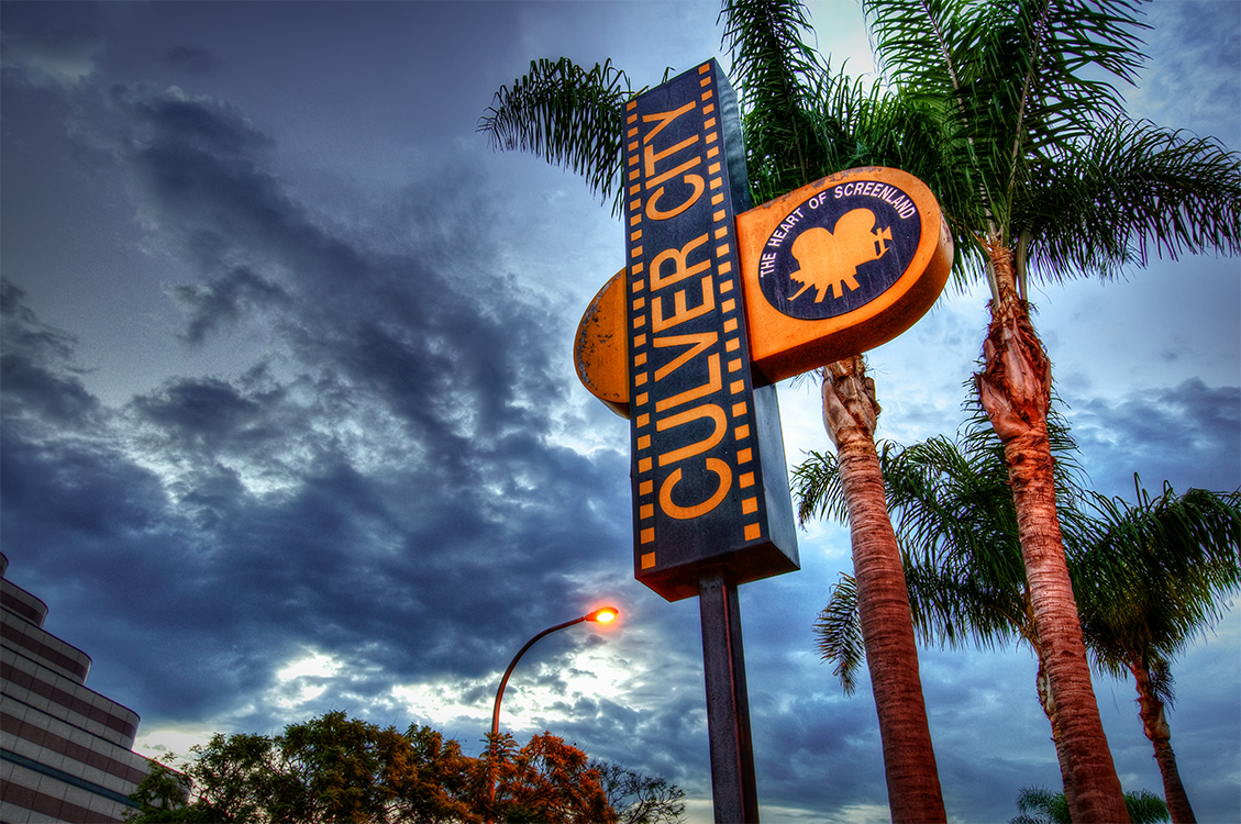 Culver City, California municipality sign, at dusk